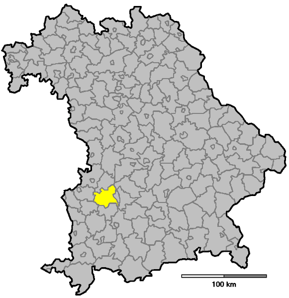 locator map of the former (1970) districts (Landkreise) in Bavaria, Germany